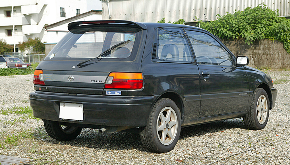 Toyota Starlet 1.3 S (EP82-AHMYK).